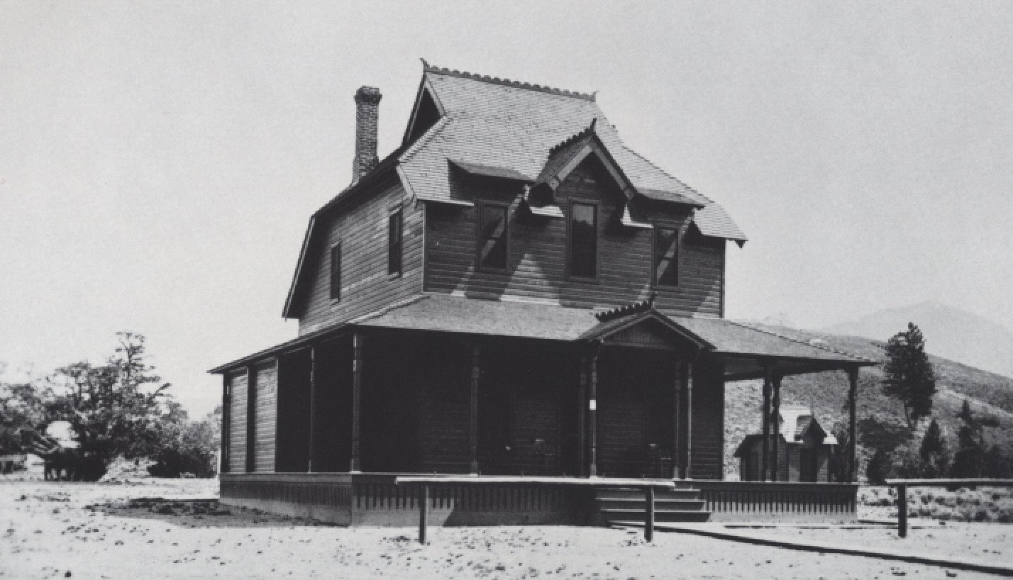 Haynes Picture Studio, Mammoth Hot Springs, Yellowstone National Park, Wyoming, 1884